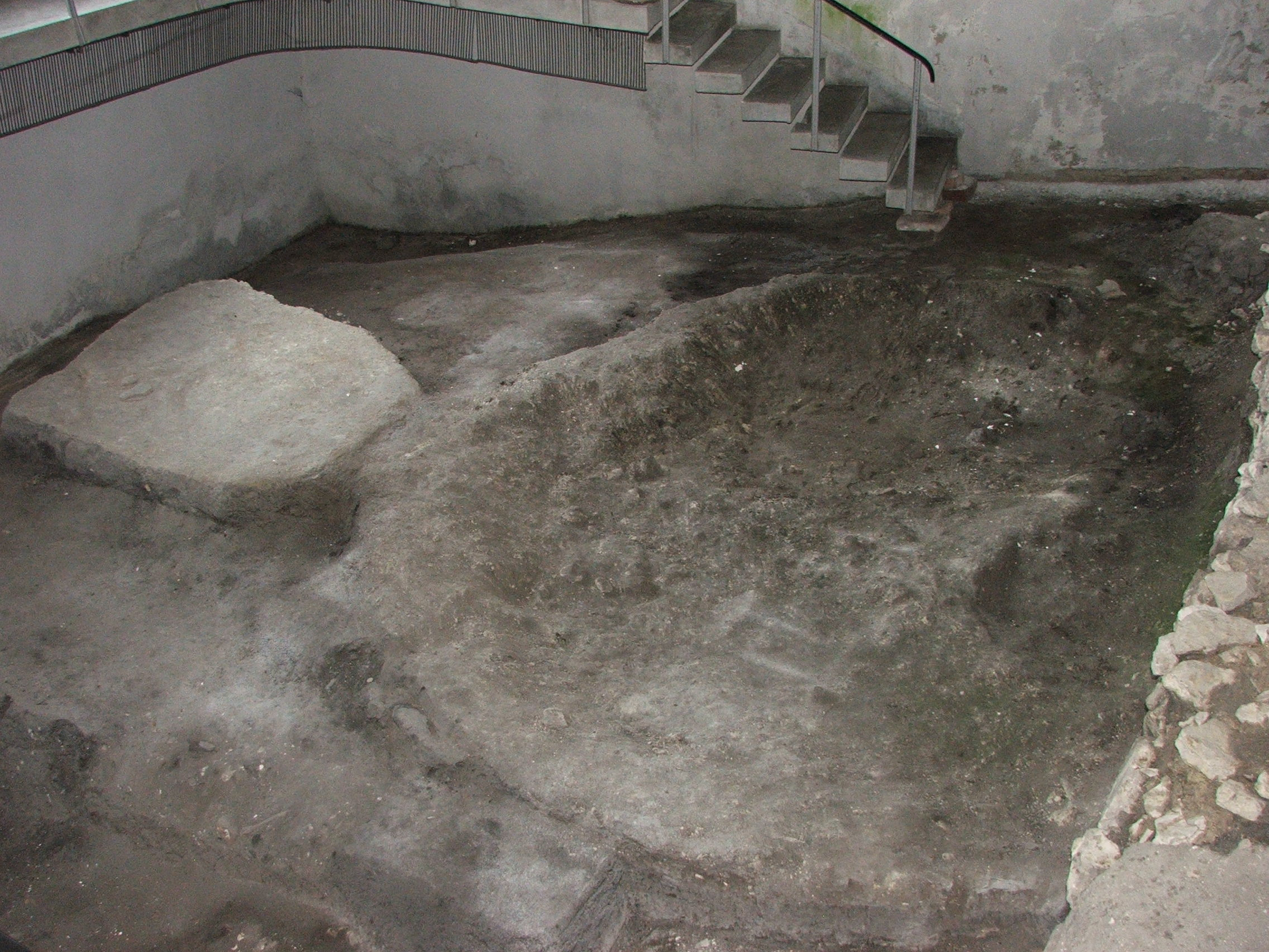 General photo on Baptismal font, probably yr 880.